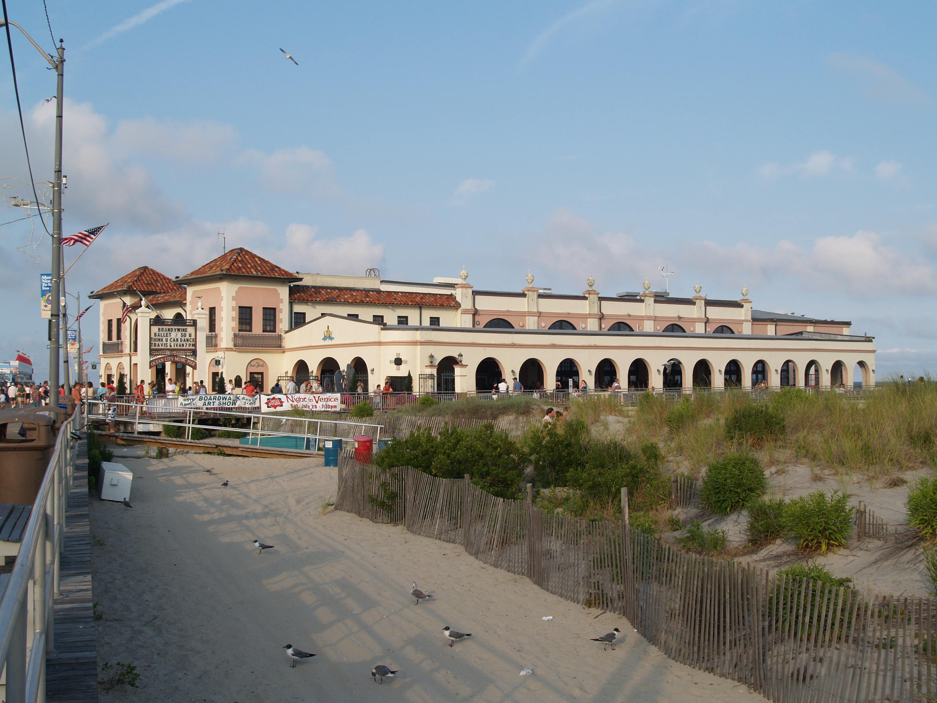 This is a picture of the music pier in Ocean City, New Jersey. It was taken by me on July 27th, 2007.